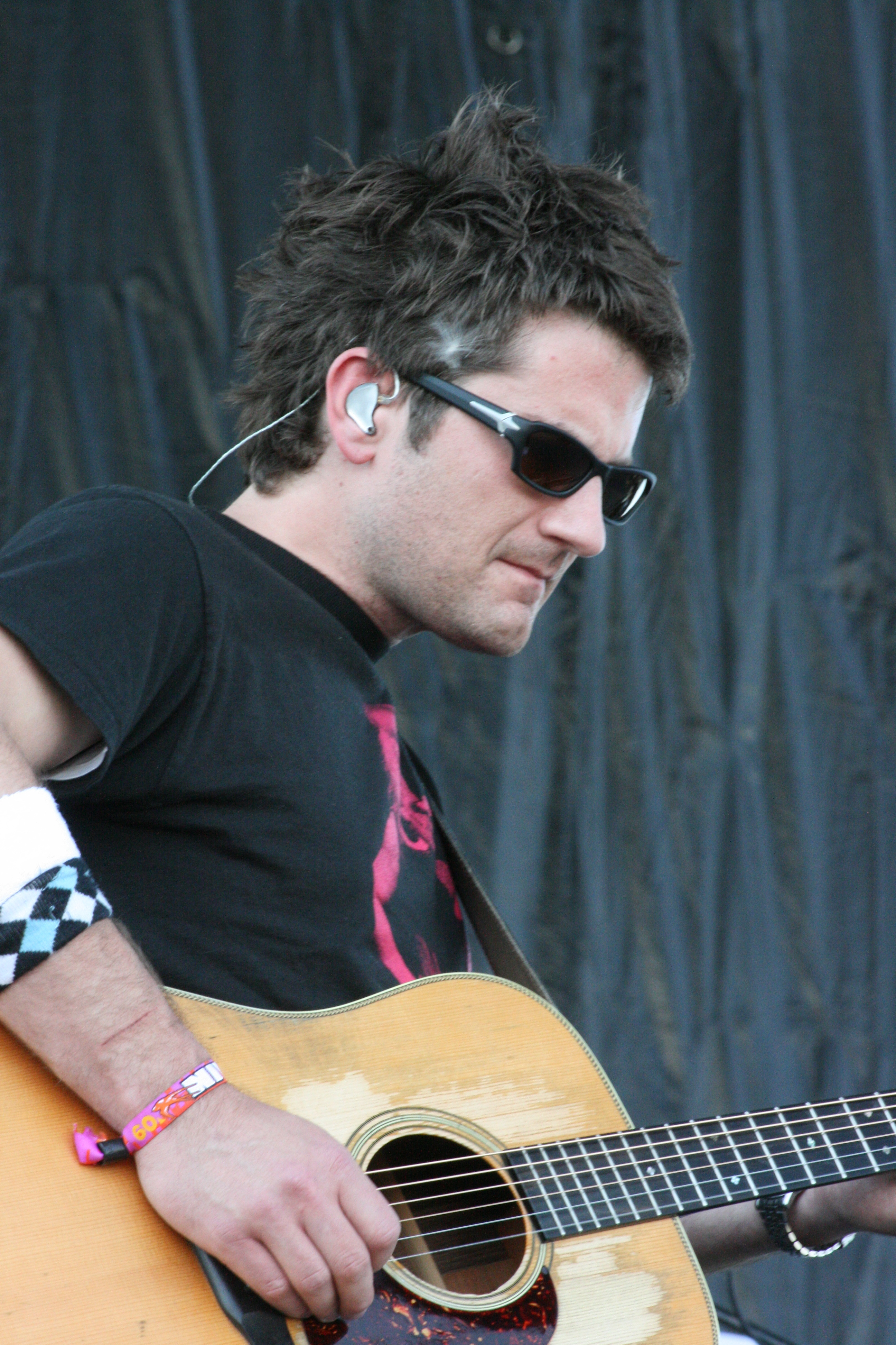 Matt Nathanson at the Mile High Music Festival